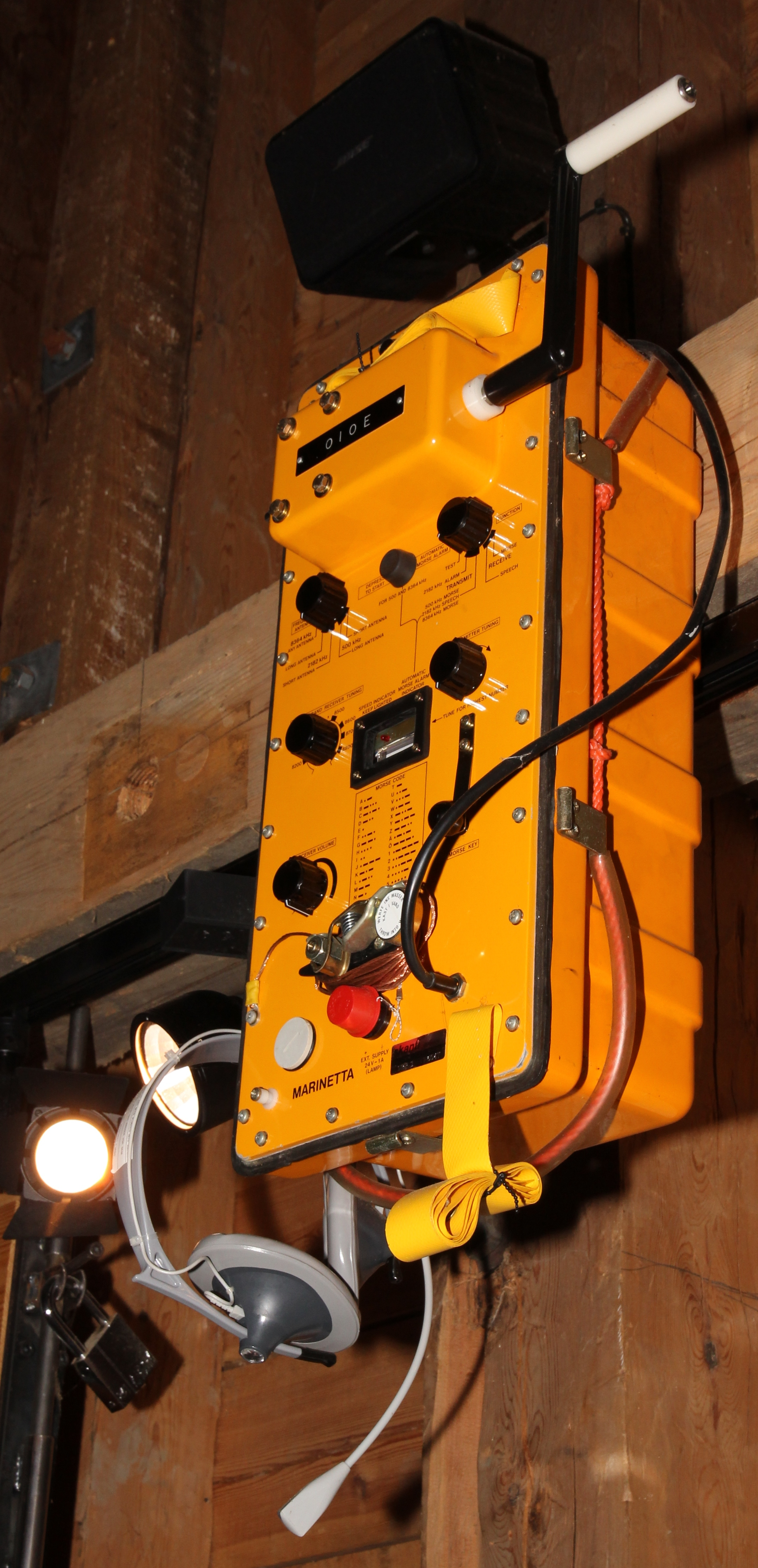 Marinetta emergency radio in Forum Marinum maritime museum. From the call sign OIOE this one belonged to tugboat Lenne.